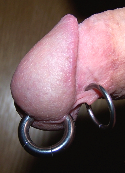 Penis with Prince Albert (PA) and Frenulum-Piercing